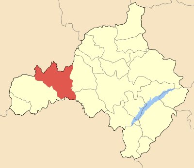 Locator map of Neapolis municipality (Δήμος Νεάπολης) at Kozani perfecture, Greece.